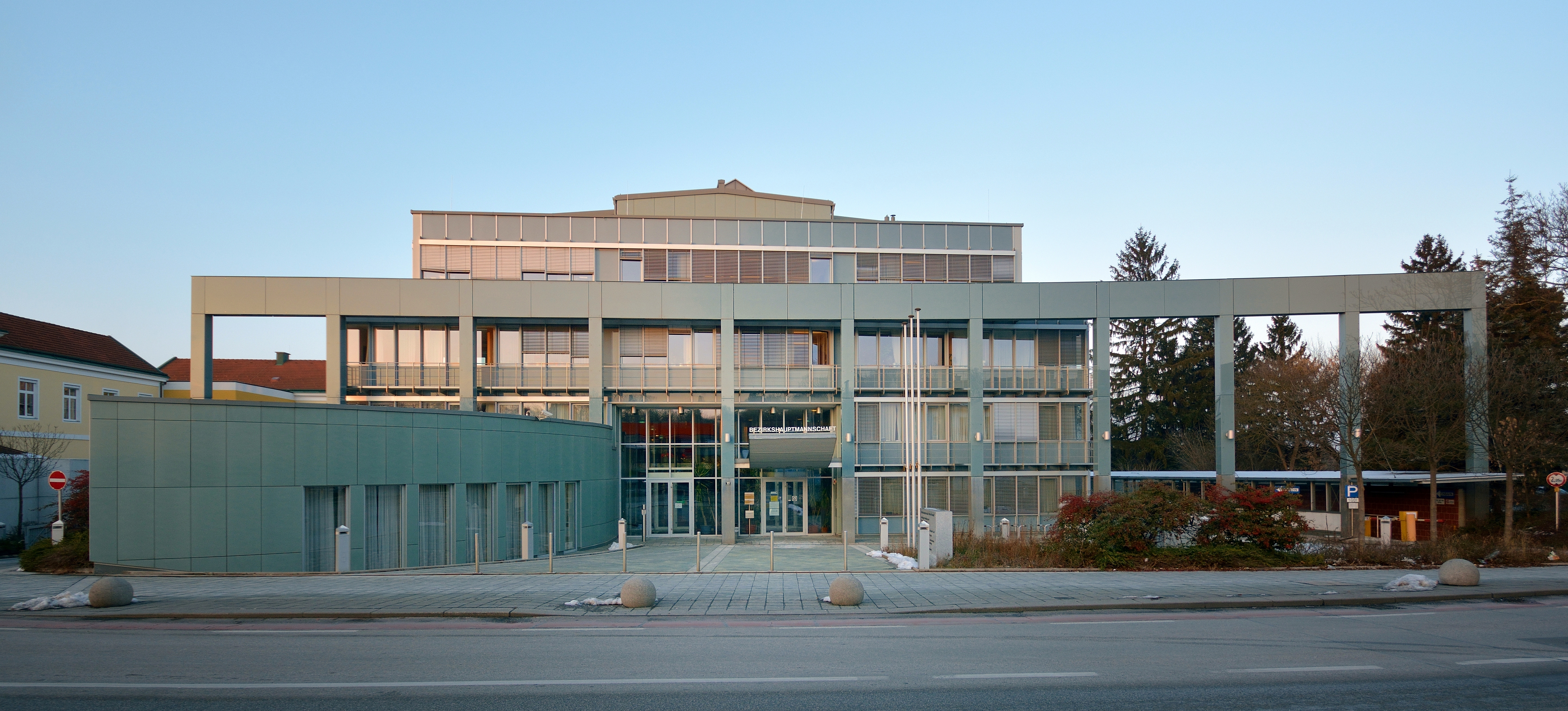 District commission of Wiener Neustadt-Land, Lower Austria